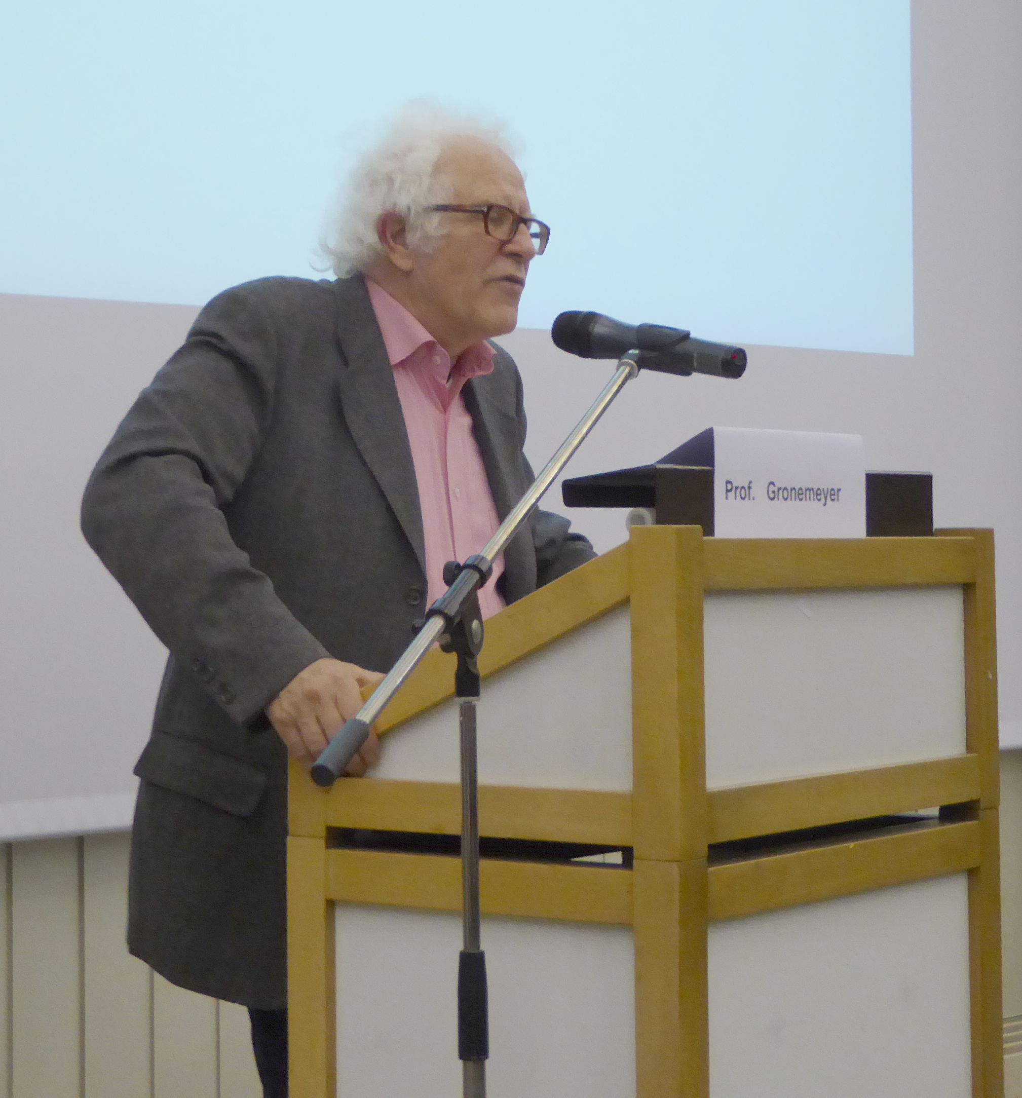 Prof. Reimer Gronemeyer at a lecture in Stuttgart, Germany Bad Cannstatt. It was organised of the initiative Demenzfreundliches Bad Cannstatt (dementia friendly Bad Cannstatt) at January 25, 2016. Bad Cannstatt is a part of Stuttgart.